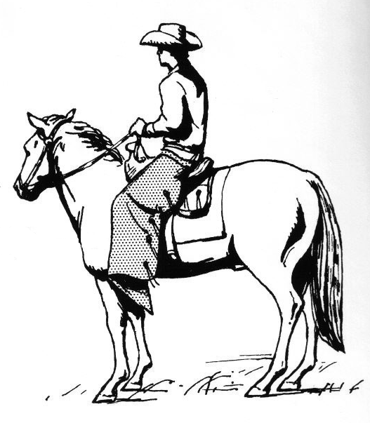 Line art drawing of a man wearing chaps on a horse.